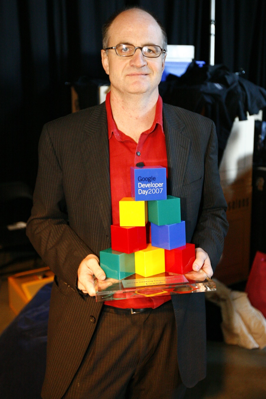 2007 Google Developer Day in Australia: James O'Loghlin, Sydney-based presenter for the Australian Broadcasting Corporation's Local Radio evening program in New South Wales and the ACT.